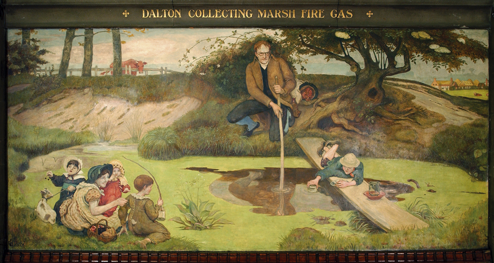 "Dalton collecting Marsh-Fire Gas" by Ford Madox Brown, a mural at Manchester Town Hall.